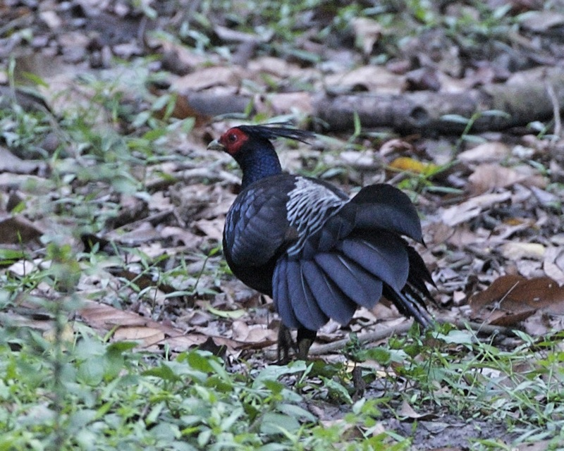 Beautiful bird unfortunately seen at dusk. Even pushing asa to 1600 did not allow a sharp picture. Kalij Pheasant Lophura leucomelanos Kazaringa, Assam, India April 14, 2008